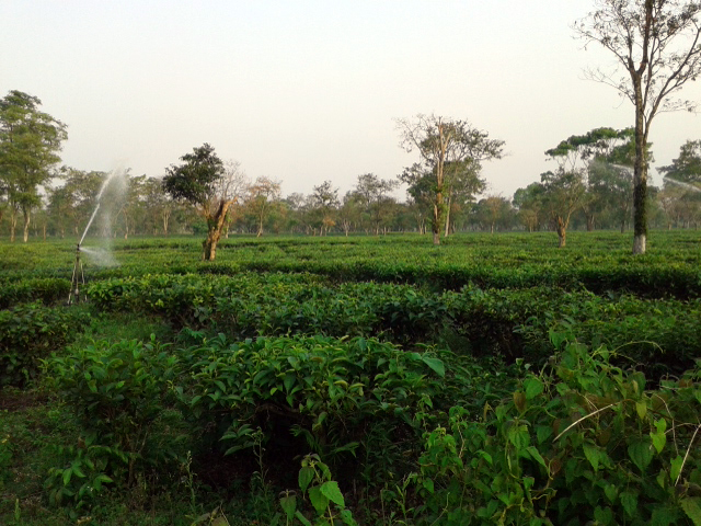 Ilam Tea Garden